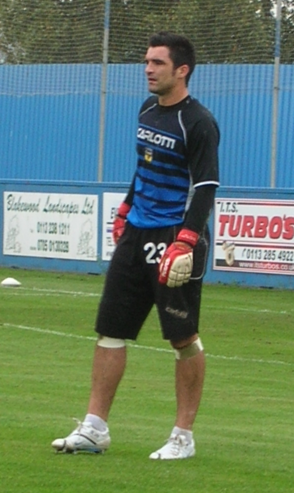 English football (soccer) goalkeeper Billy Turley of Oxford United, warming up prior to a match against Farsley Celtic at Throstle Nest on 2007-10-14